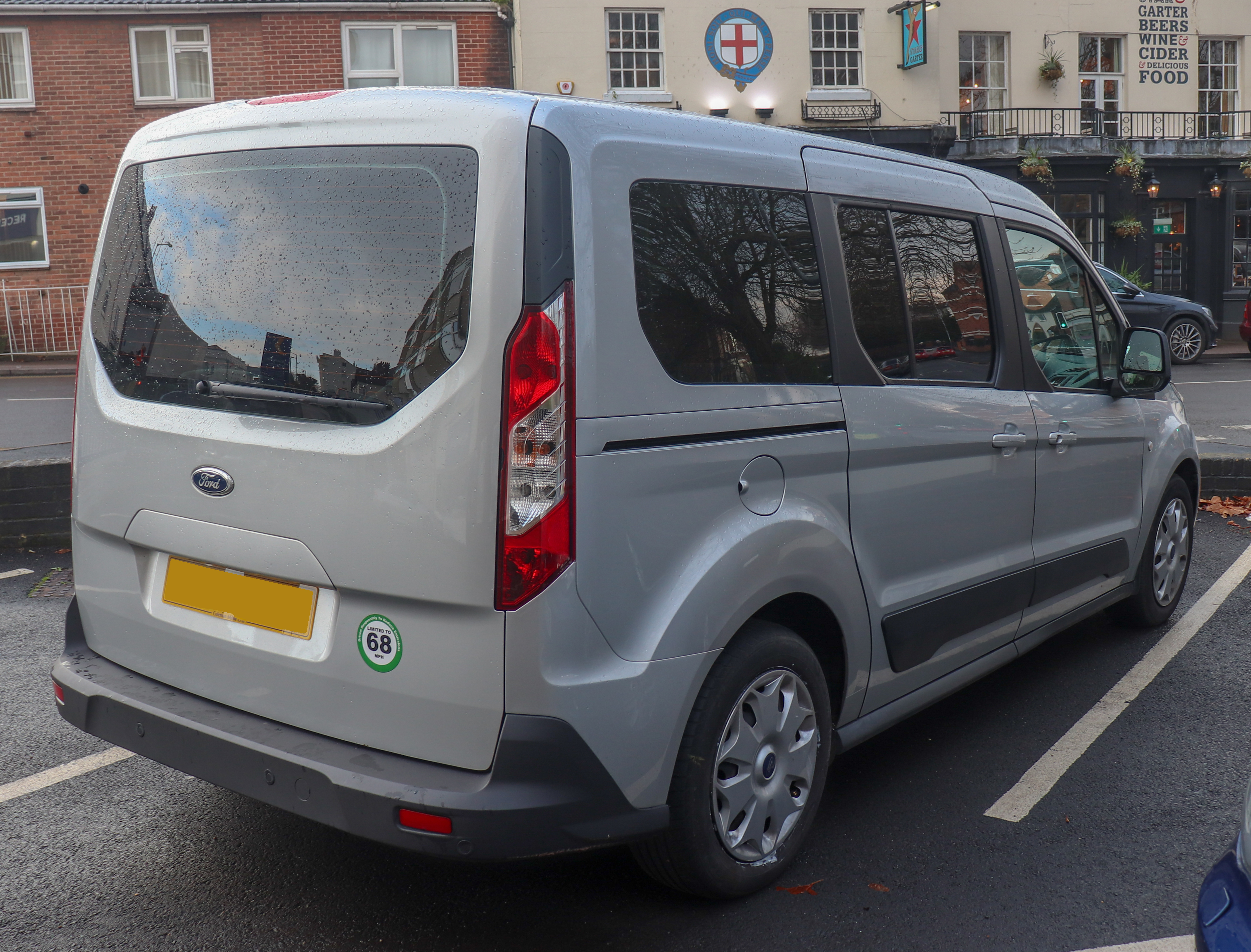 2015 Ford Grand Tourneo Connect Zetec 1.5 Rear Taken in Leamington Spa